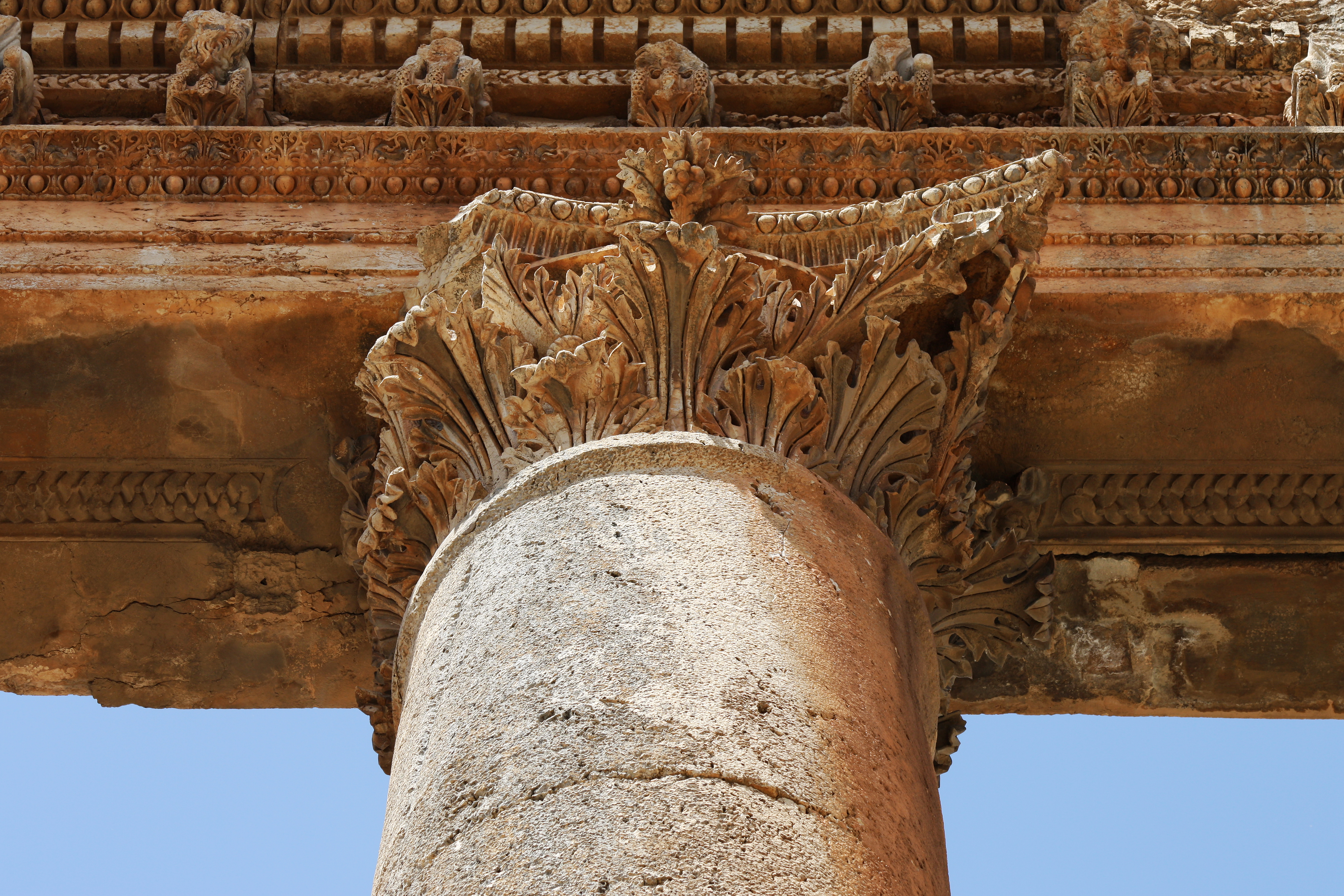 A corinthian capital of the temple of Jupiter, in the complex of Baalbek, Lebanon.